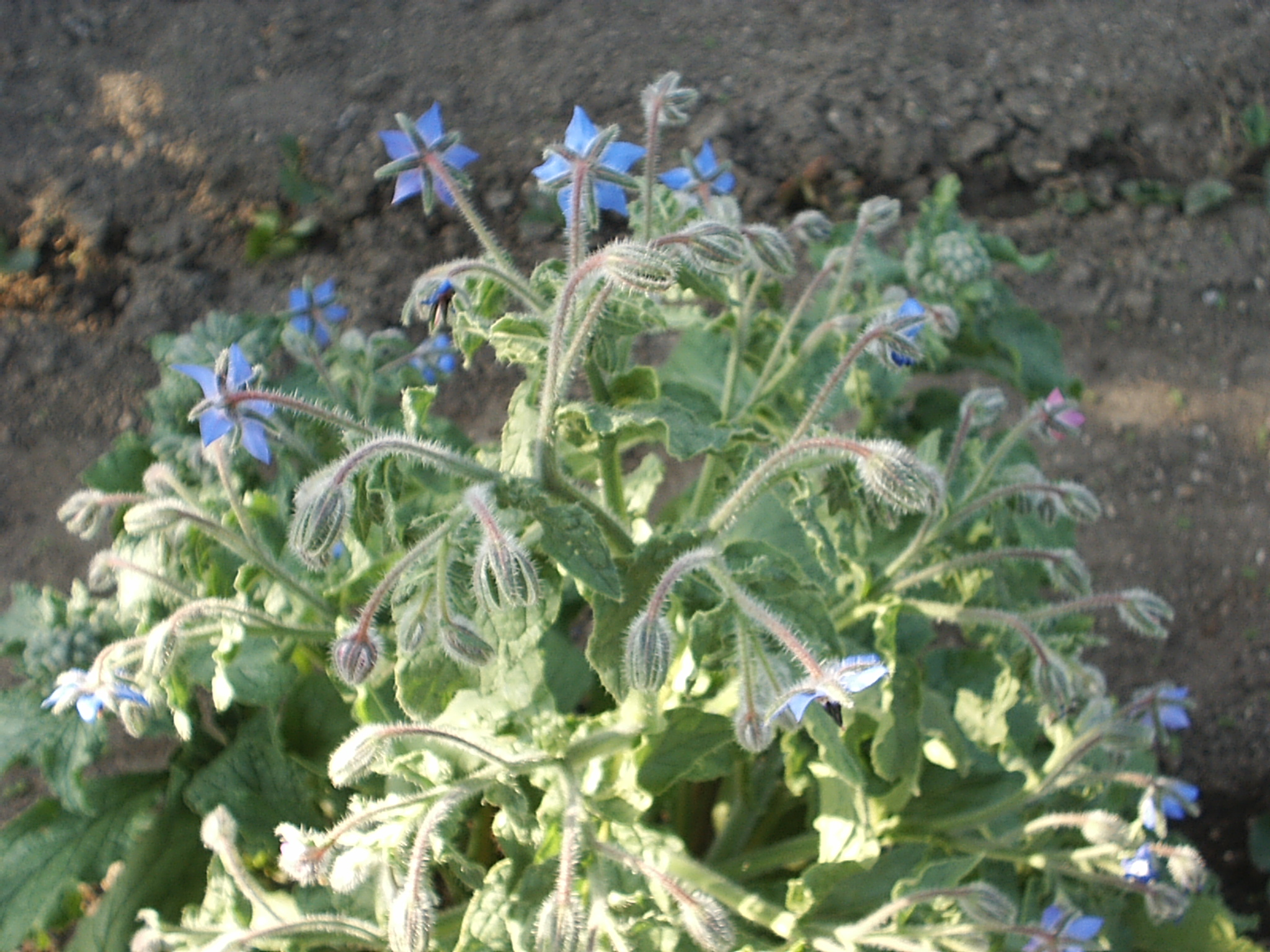 Borago officinalis in a garden in the village Pragsdorf, Germany